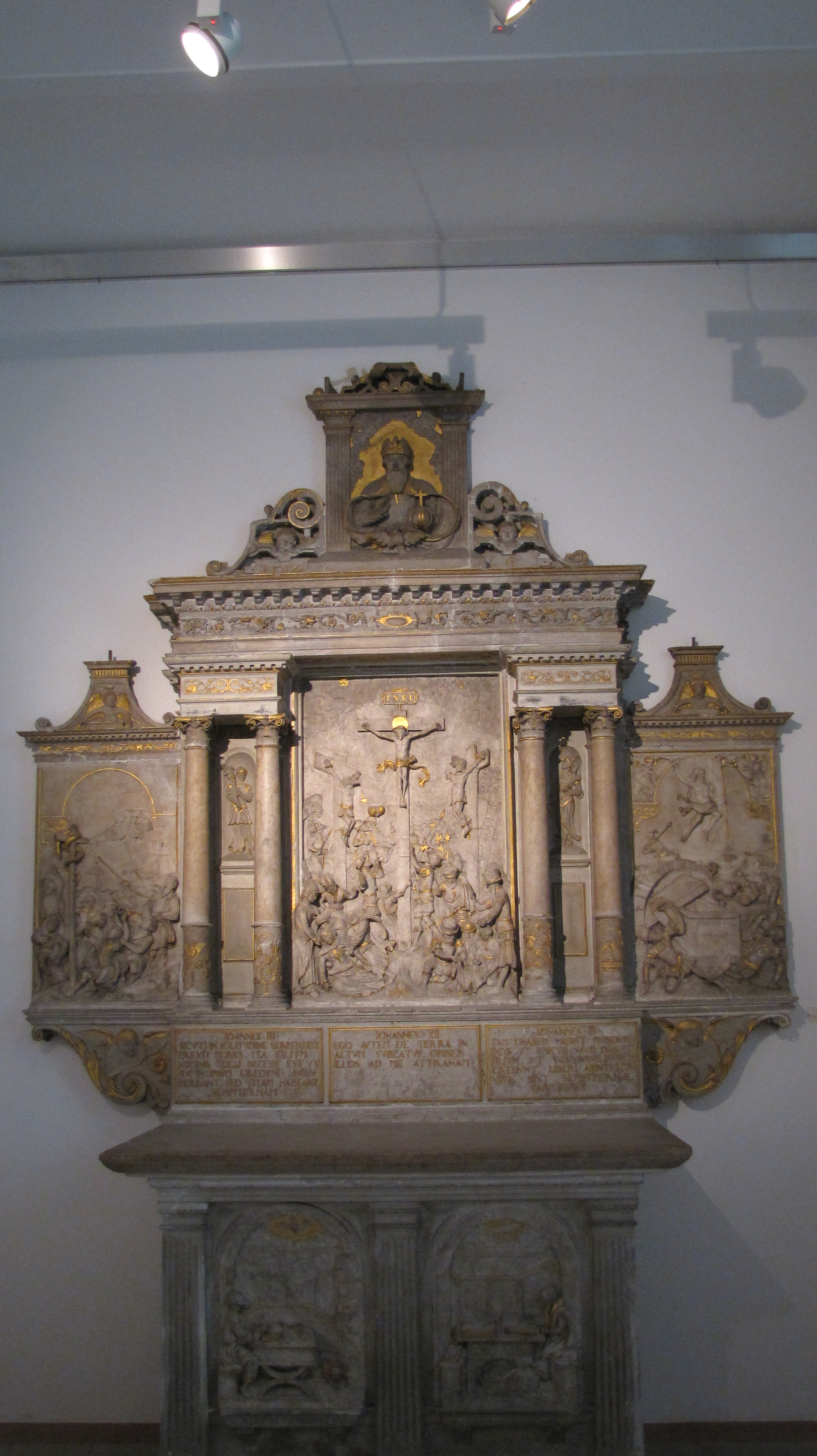 Marble Altar by Georg Schröter from 1562, originally for the Schlosskirche Schwerin, today in the Staatliches Museum Schwerin